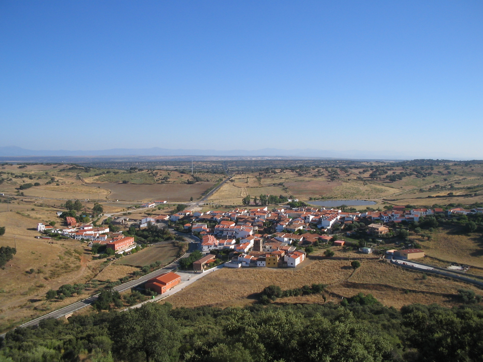 The town of Portezuelo (Cáceres, Extremadura, Spain) view from the Castle of Portezuelo